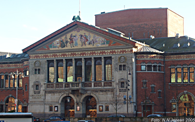 Aarhus Theater is designed by Danish architect Hack Kampmann.